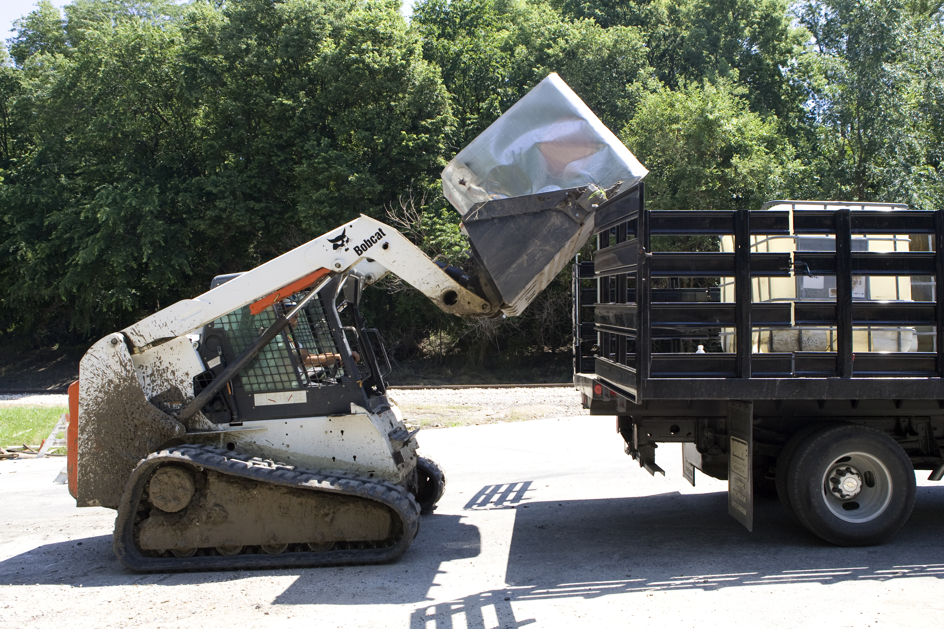 Cedar Rapids, Iowa, July 25, 2008 -- Environmental Restoration, a contracted employee of the EPA, removes debris from the riverside that could be of a potentially hazardous nature. It will be taken to the EPA staging ground, sorted and disposed of properly. Susie Shapira/FEMA